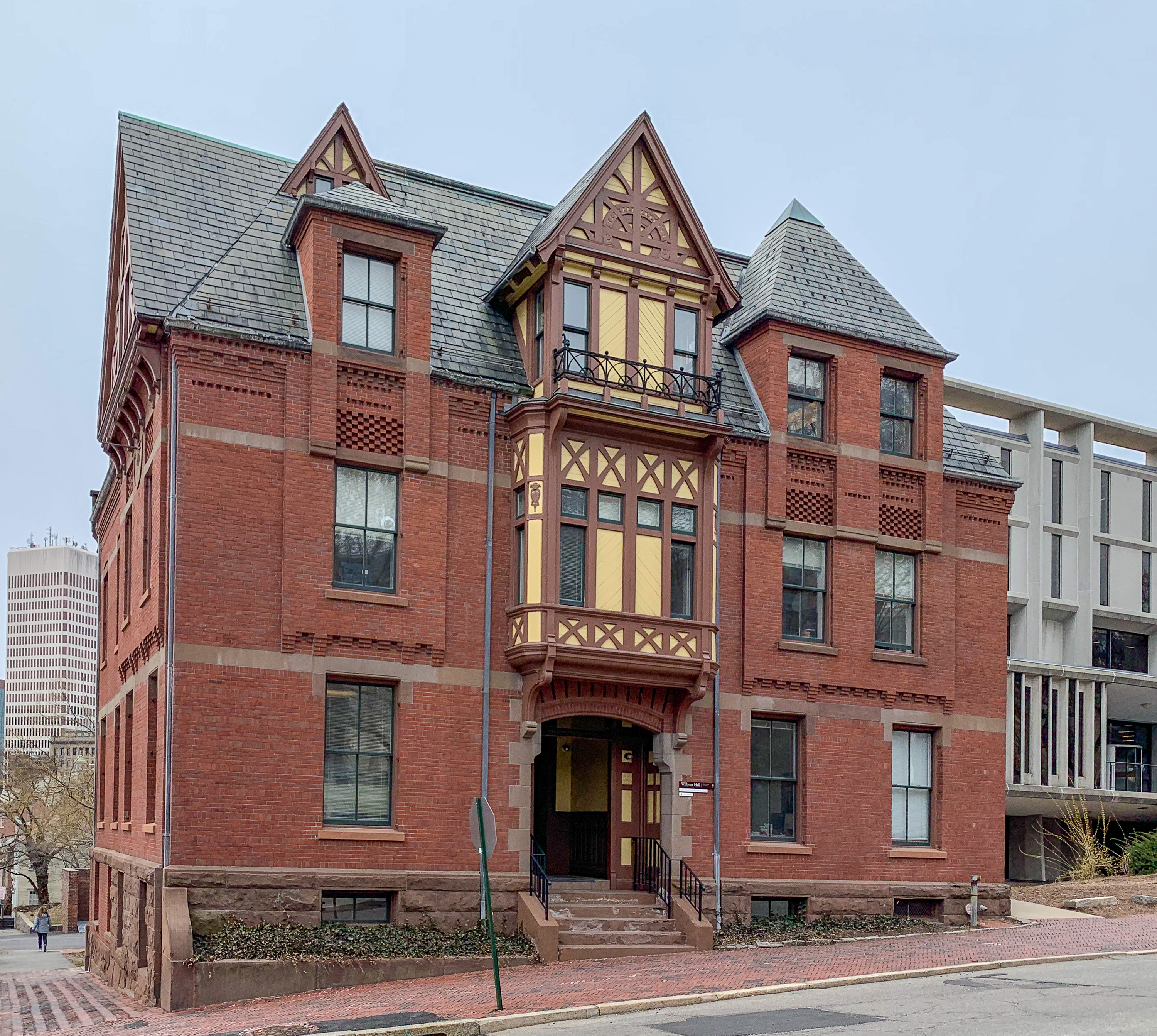 Brown University Wilbour Hall on the corner of Prospect and George Streets.